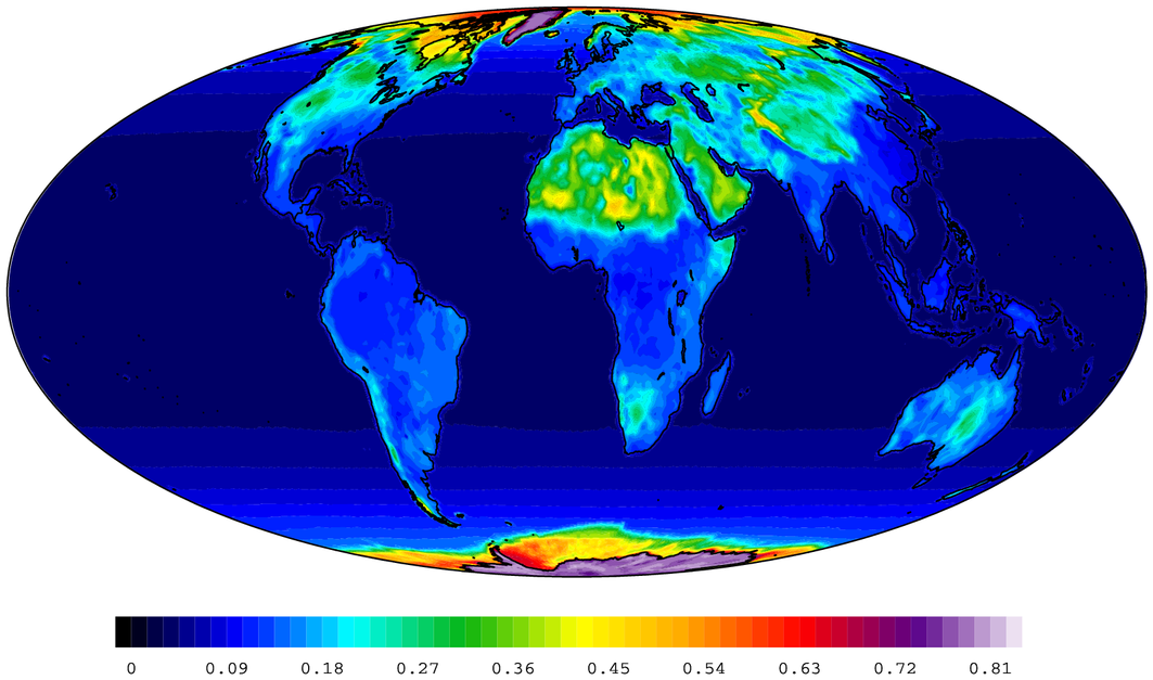 CERES-Terra 2004 mean annual clear sky albedo. Data